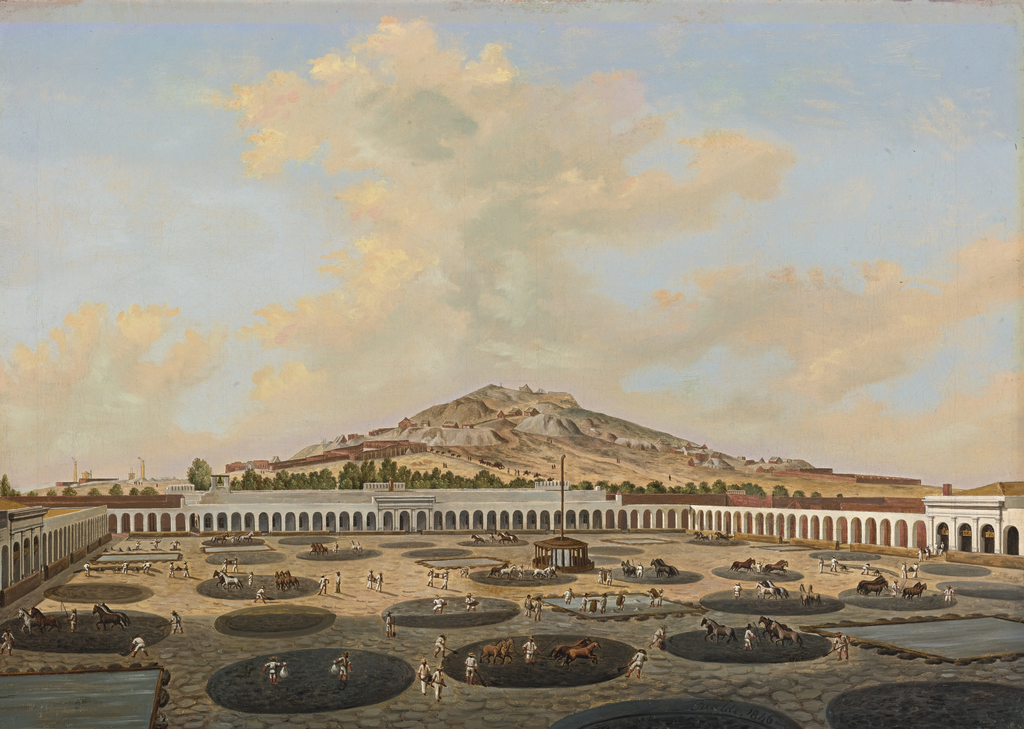 Depiction of the Hacienda Nueva de Fresnillo during silver reduction through the patio process. The Cerro de Proaño is visible in the background. Patio process: Low grade ore was crushed and ground into powder (through animal and human power), a mercury-silver mixture was created in which silver is chemically bound to mercury (the grey circles depicted in the painting), the rock and dirt particles were washed away and the evaporation of the mercury left the silver concentrate. The mine and processing plant were under the control of the Zacatecas State Government and Gualdi was presumably commissioned by the state.